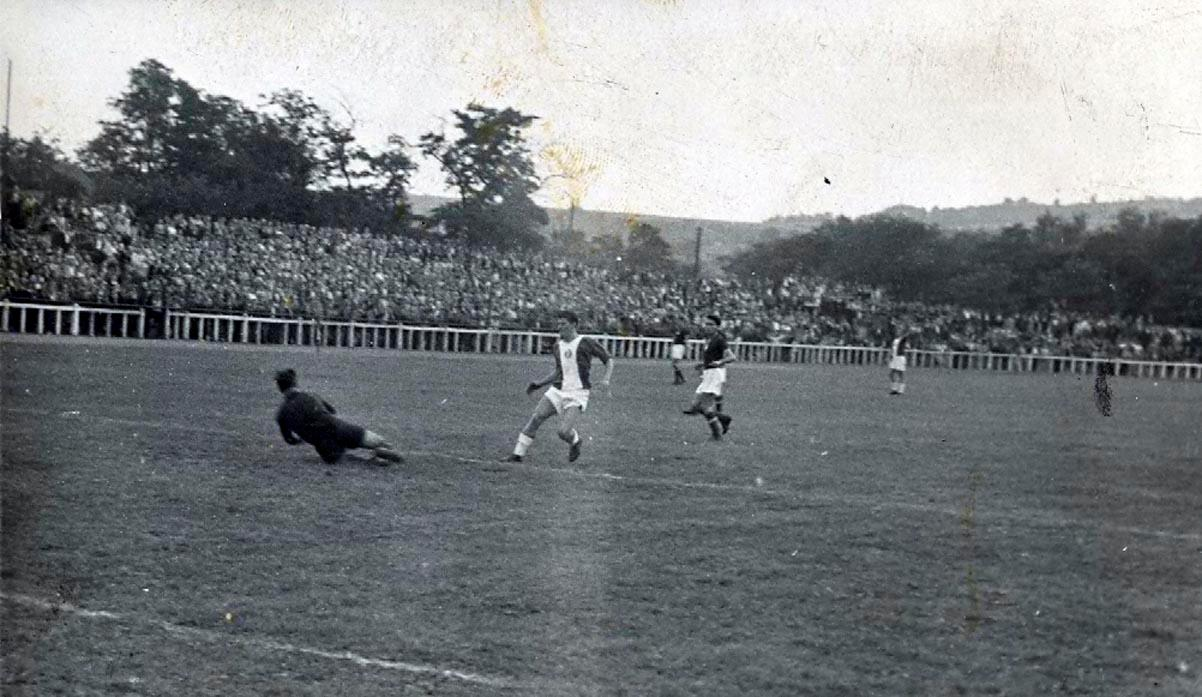 The Buzanszky stadium often has been fulled in the 60's